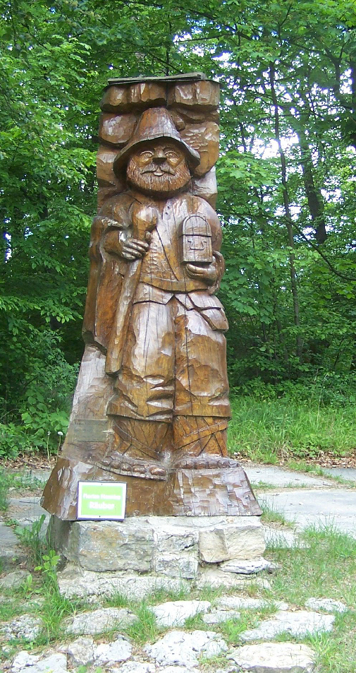 Florian Henning - the robber - a sculpture at the Turm der Einheit.